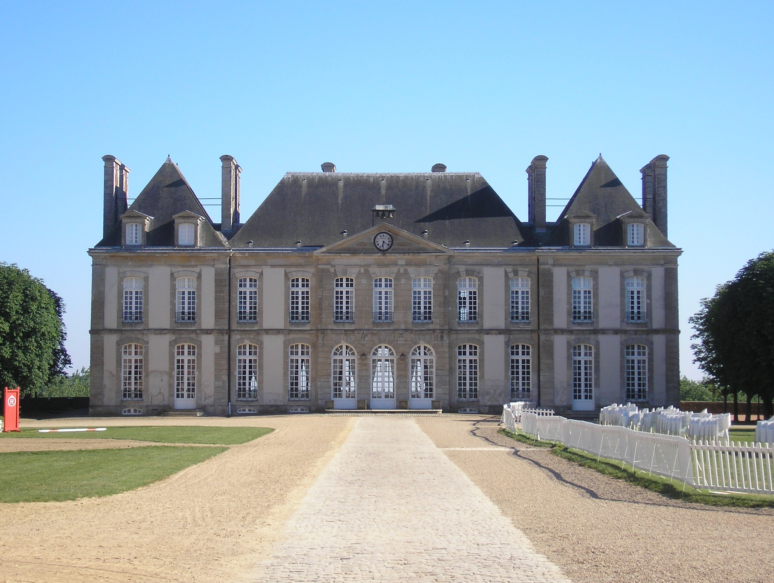 Le Pin-au-Haras (Normandy, France). The Château du Haras du Pin.